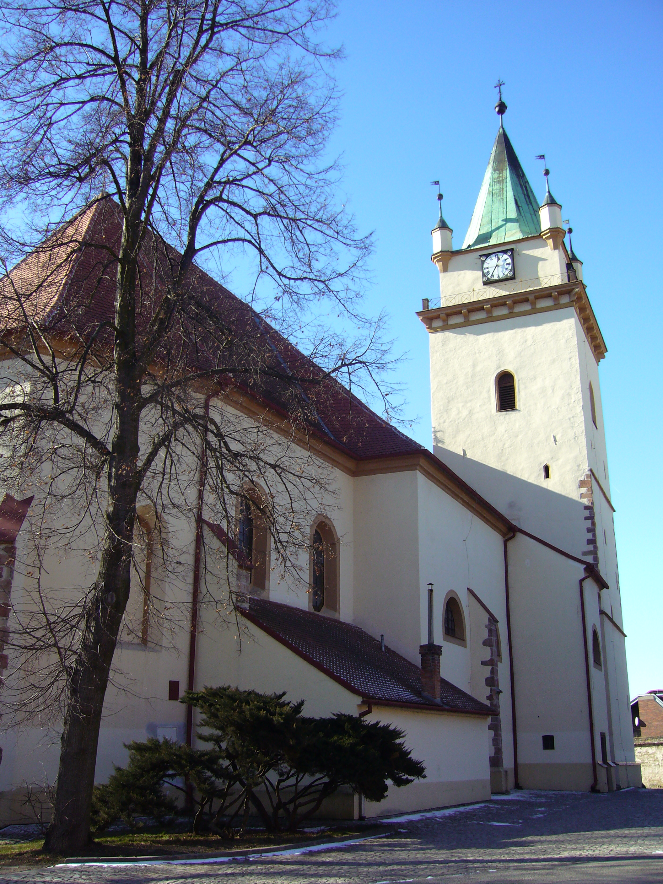 St. Wenceslas´ Church in Tišnov